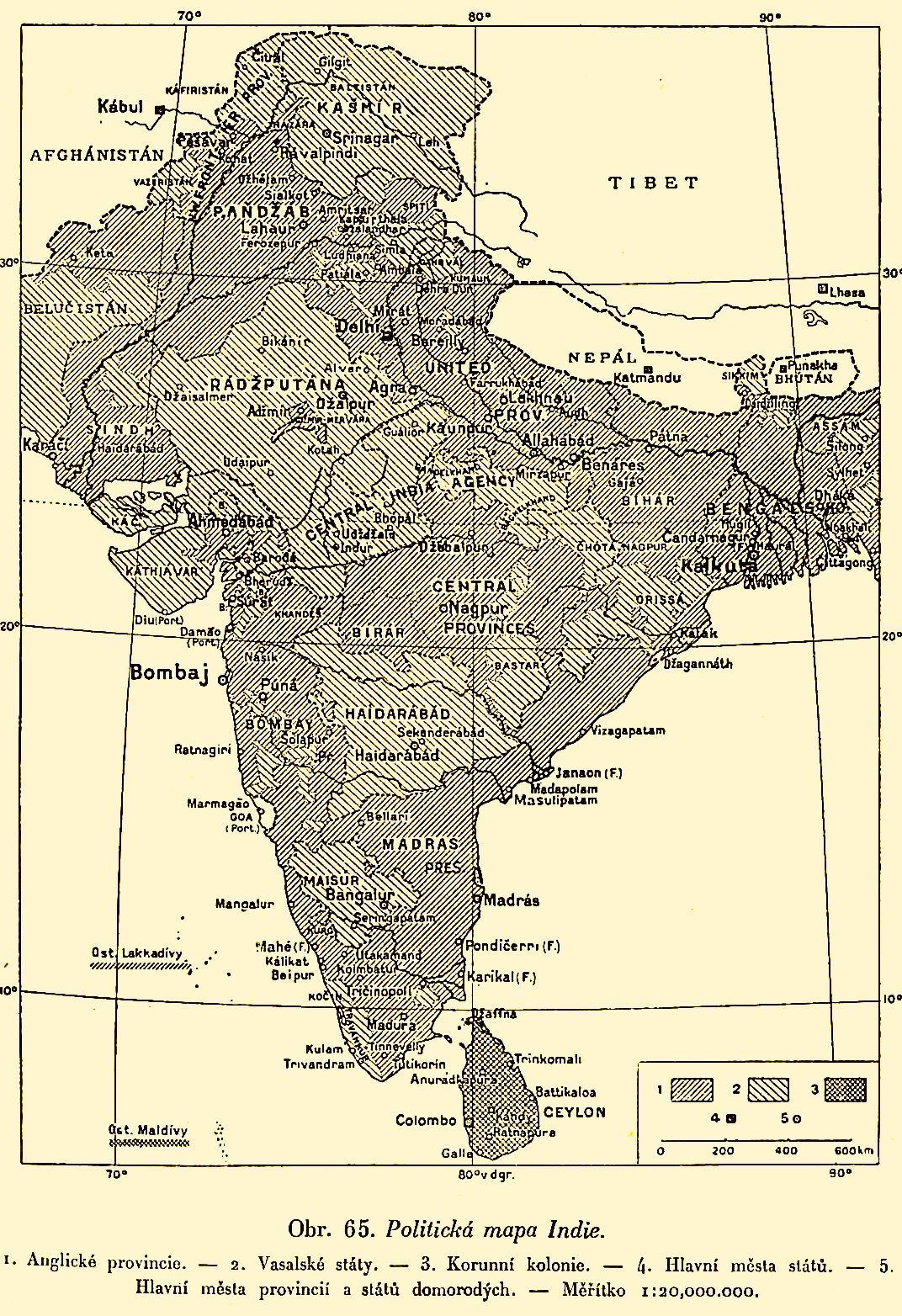 Political map of India after the First World War. The descriptions are in Czech.